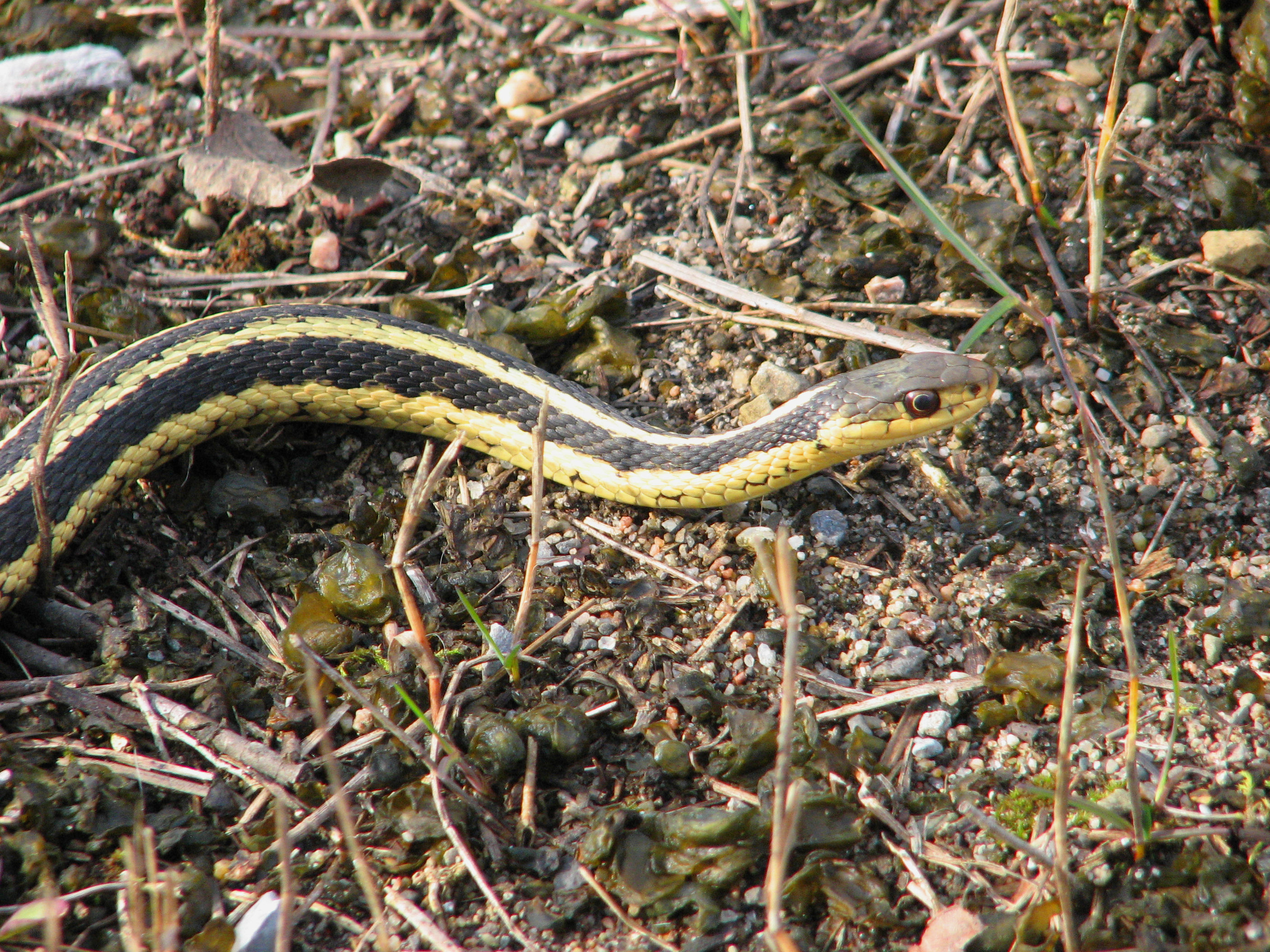 Eastern Garter Snake (Thamnophis sirtalis sirtalis), Ottawa, Ontario